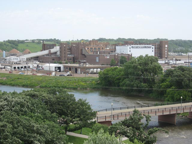 John Morrell meat packing plant in Sioux Falls, South Dakota. Looking northeast from the observation tower in Falls Park. Taken 9 June 2007 by Jon Platek